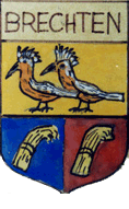 Coat of arms of Dortmund-Brechten, Germany